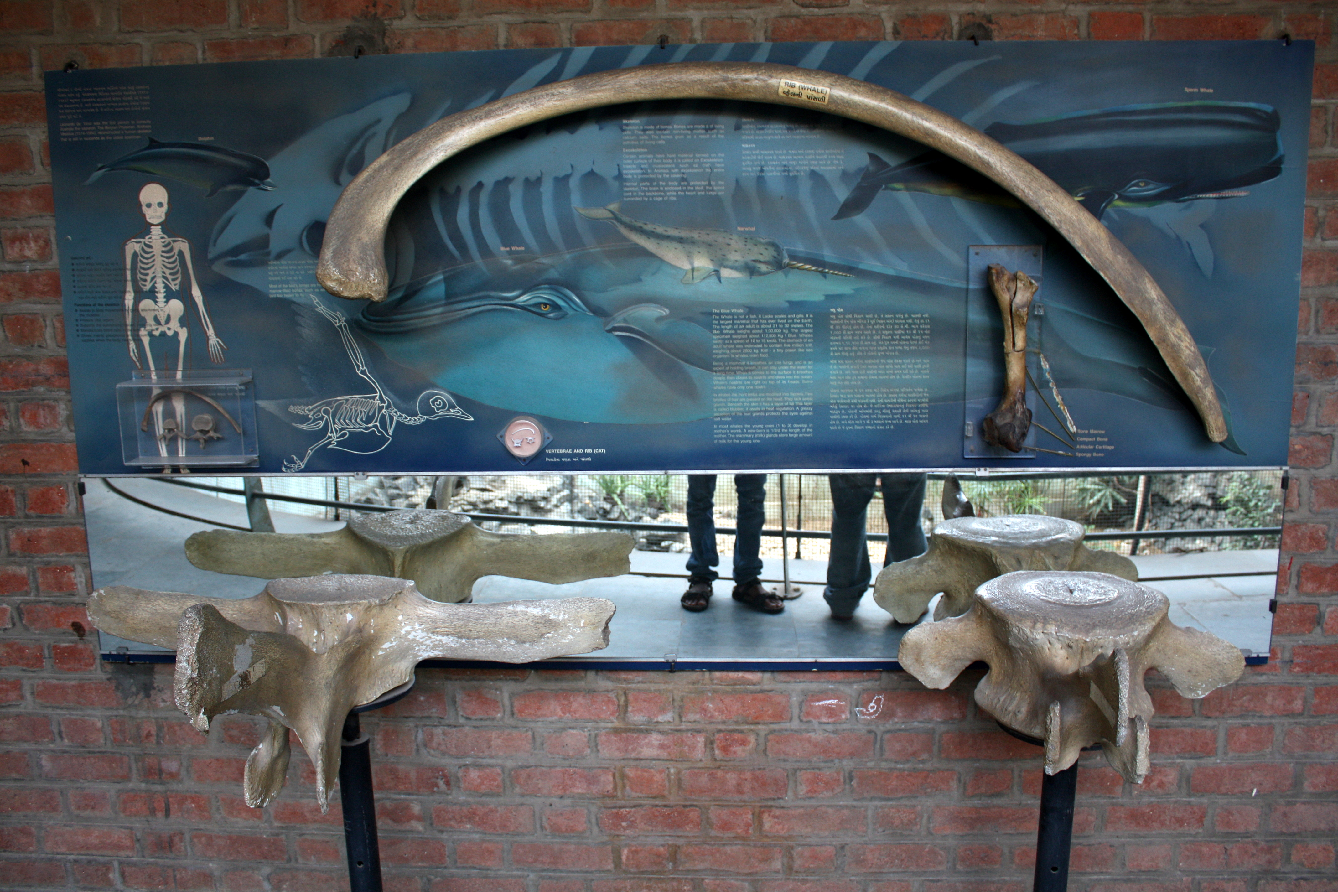 types of bones..comparing whale;human;bird